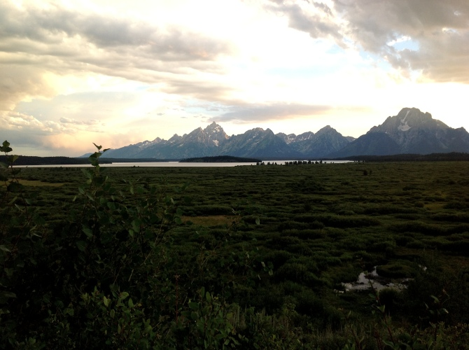 The mountains of the Grand Teton National Park